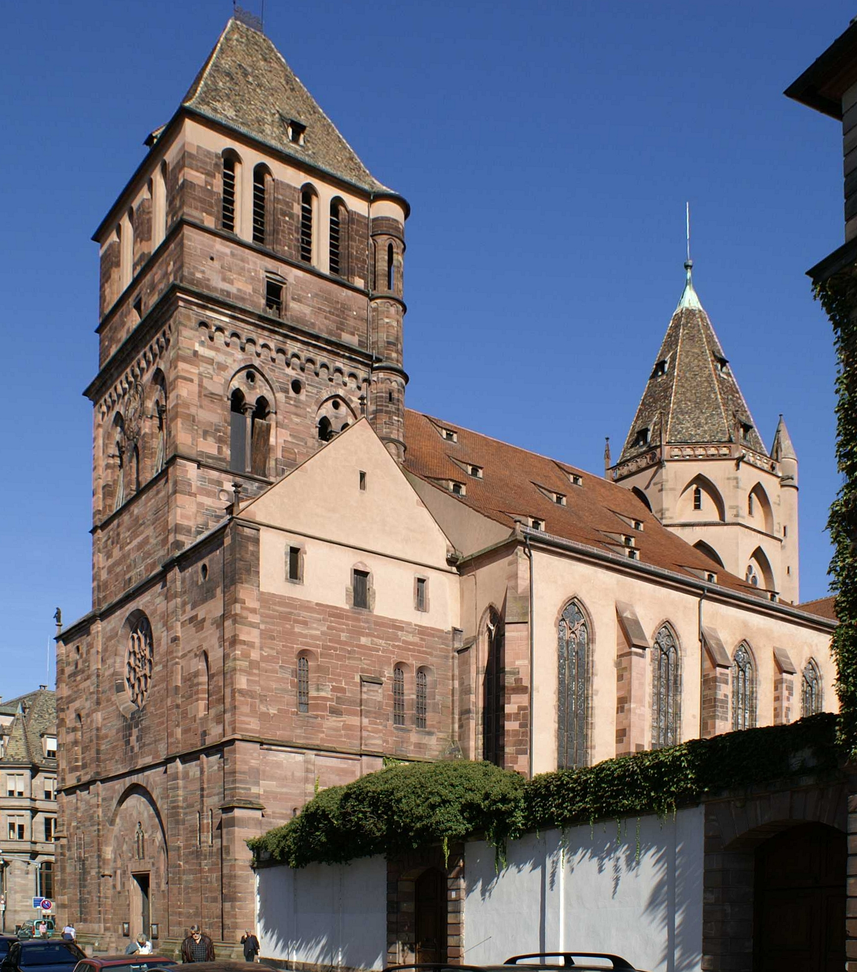 Eglise Saint Thomas - Strasbourg - France